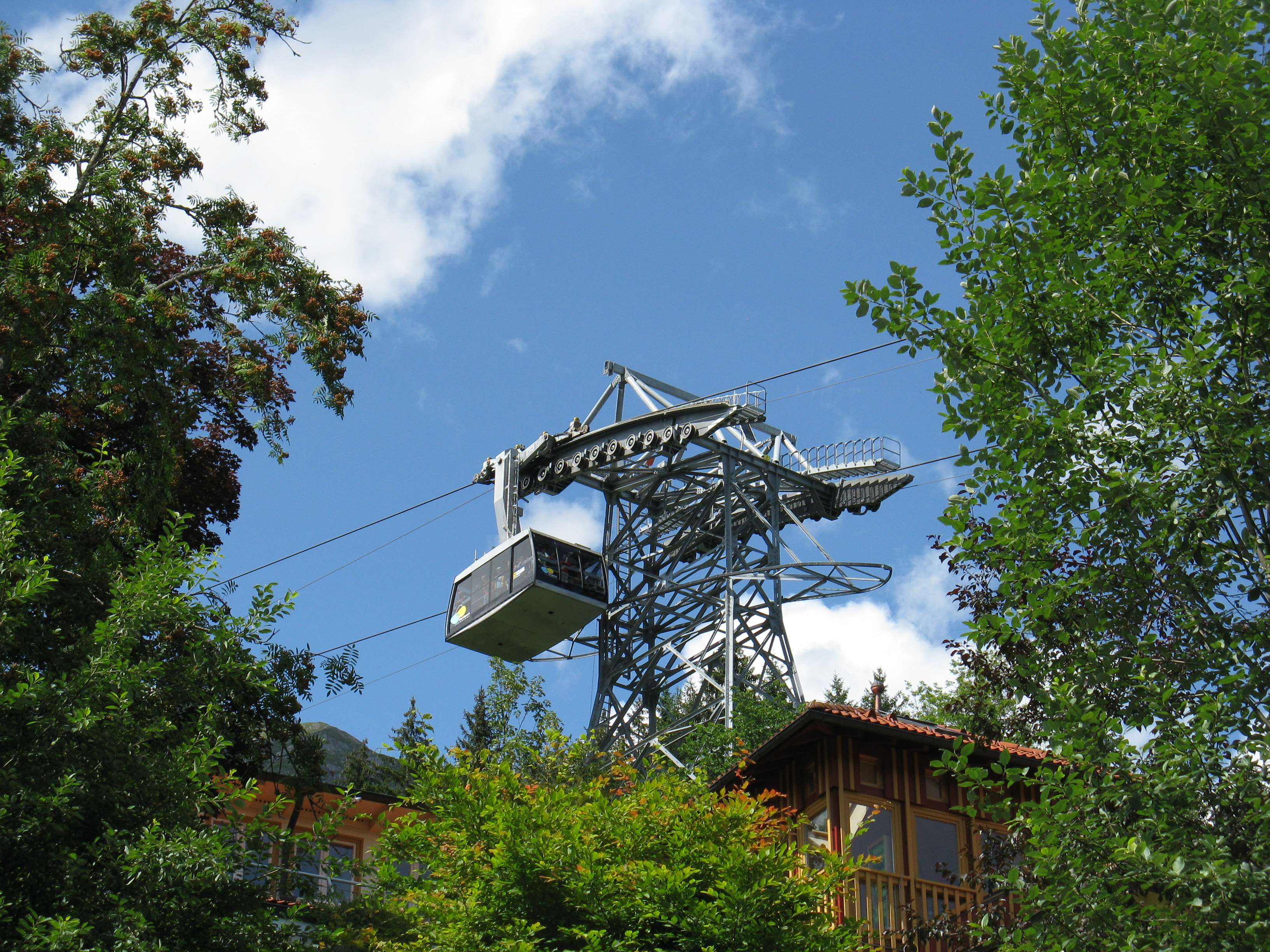 Nordkettenbahn (aerial tramway), section I, support pillar 1, gondola